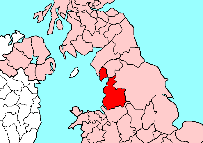 Lancashire